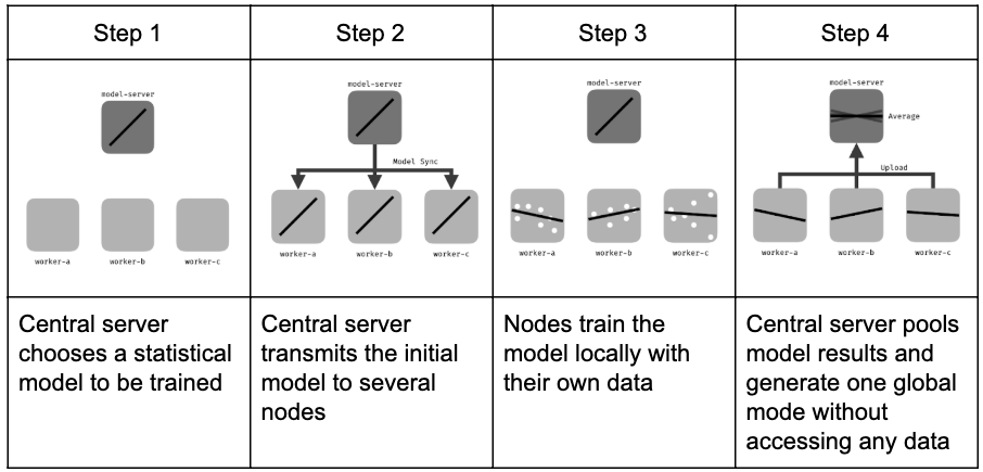 Federated learning process in central orchestrator case